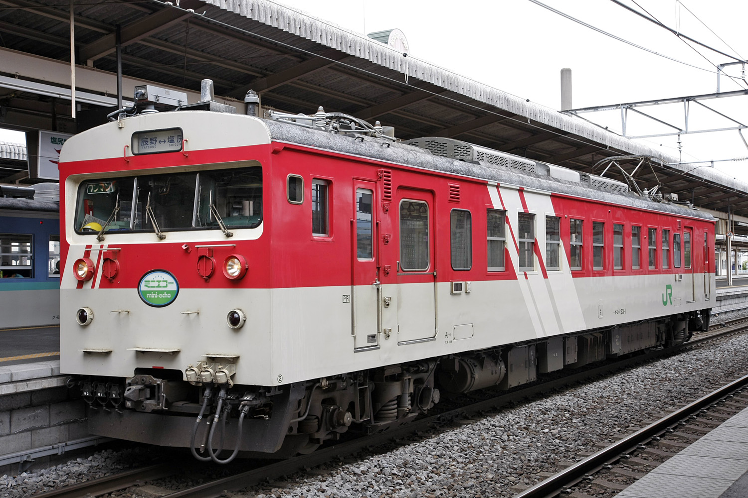 JR East 123 series EMU car KuMoHa 123-1 at Shiojiri Station